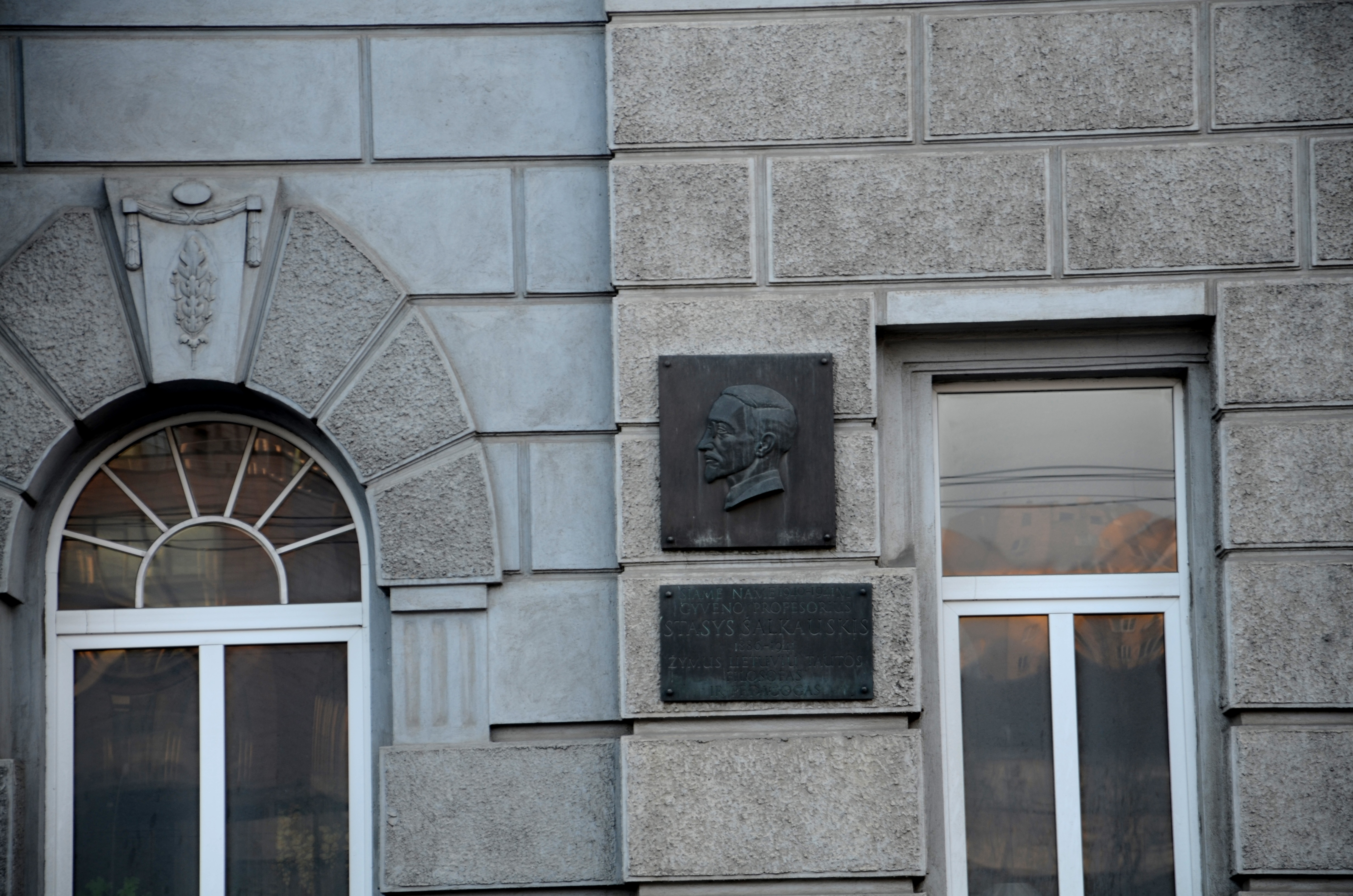 Memorial Plaque of Stasys Šalkauskis on the wall of house #10 on Žygimantų-street in Vilnius